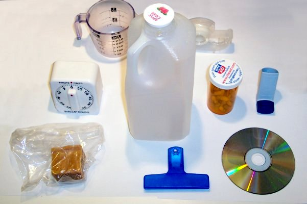 A variety of household objects made out of plastic. From top left to bottom right : measuring cup, tape dispenser with tape, cooking timer, plastic jug, pill container, medical inhaler pump, plastic fold-top sandwich bag, crocodile clip, CD.